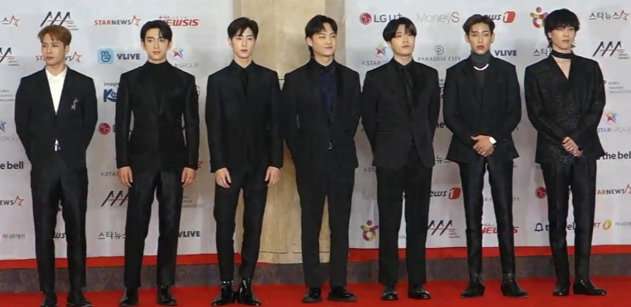 Got7 on the red carpet of 2018 Asia Artist Awards(AAA), 28 November 2018